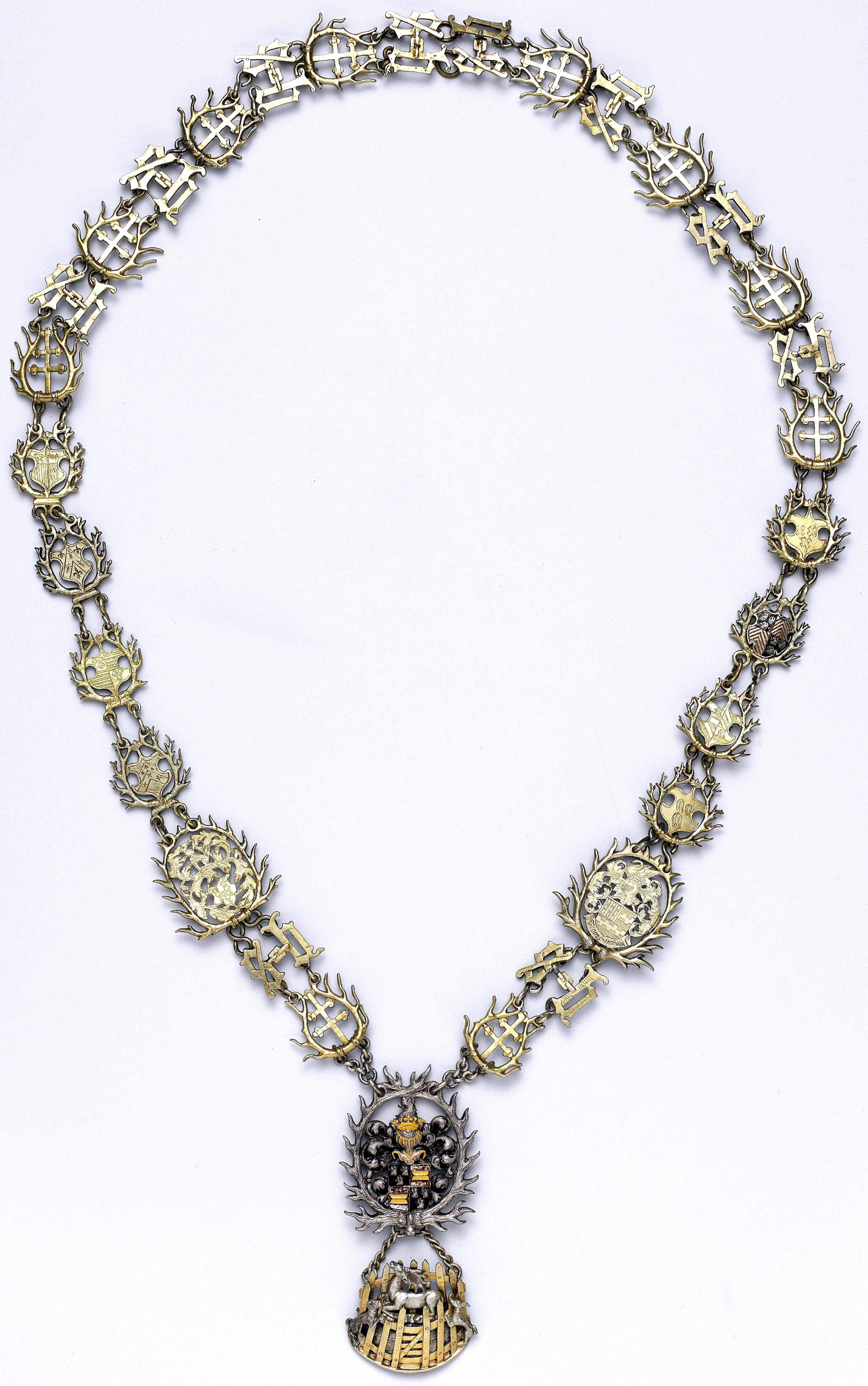 Chain of one of the guilds of Saint Hubert (probably the one in The Hague), guilded and partly enameled. Ten chains are modelled after a double cross in between a pair of stag antlers (the symbol of Saint Hubert). These chains alternate with ten others, representing the letters S and H (the saint's initials). One of these contains the engraved inscription ‘PIRNEYS JACOB ZOE[N]’ (Pirneys Jacobs), possibly the chain's maker. On the front five pairs of coats of arms, each within a pair of stag antlers; one of these is enameled and contains the inscription ‘I Dorp 1581’ on its back. The inscription on the back of another coat of arms reads ‘de Glarges 1580’. The first two represent the families Van Sweieten and Blois (the latter bearing the inscription ‘J. Comes-Invidia’); both are larger and include helm, crest and mantling. The others can't be identified (mainly because of their inaccurate representation). Final chain: a pair of large stag antlers surrounding the coat of arms of Arend van Dorp with helm, crest and mantling; underneath, hanging on two chains, a stag in an enclosure, resembling a Dutch Garden, outside of which two menacing hounds.